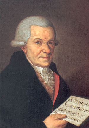 Depicted person: Michael Haydn